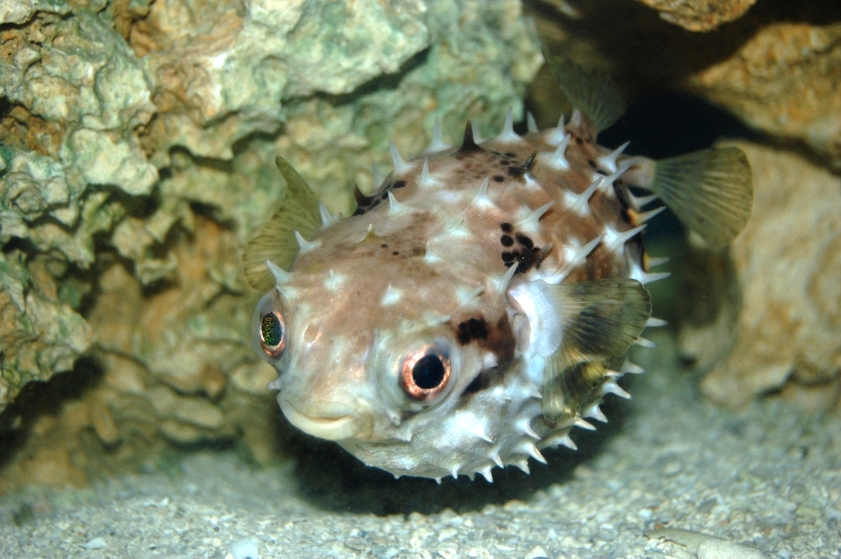 Pufferfish (Butete) Mactan Aquarium, Basak, Lapulapu City